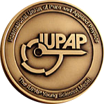 The IUPAP award of the International Commission for Optics